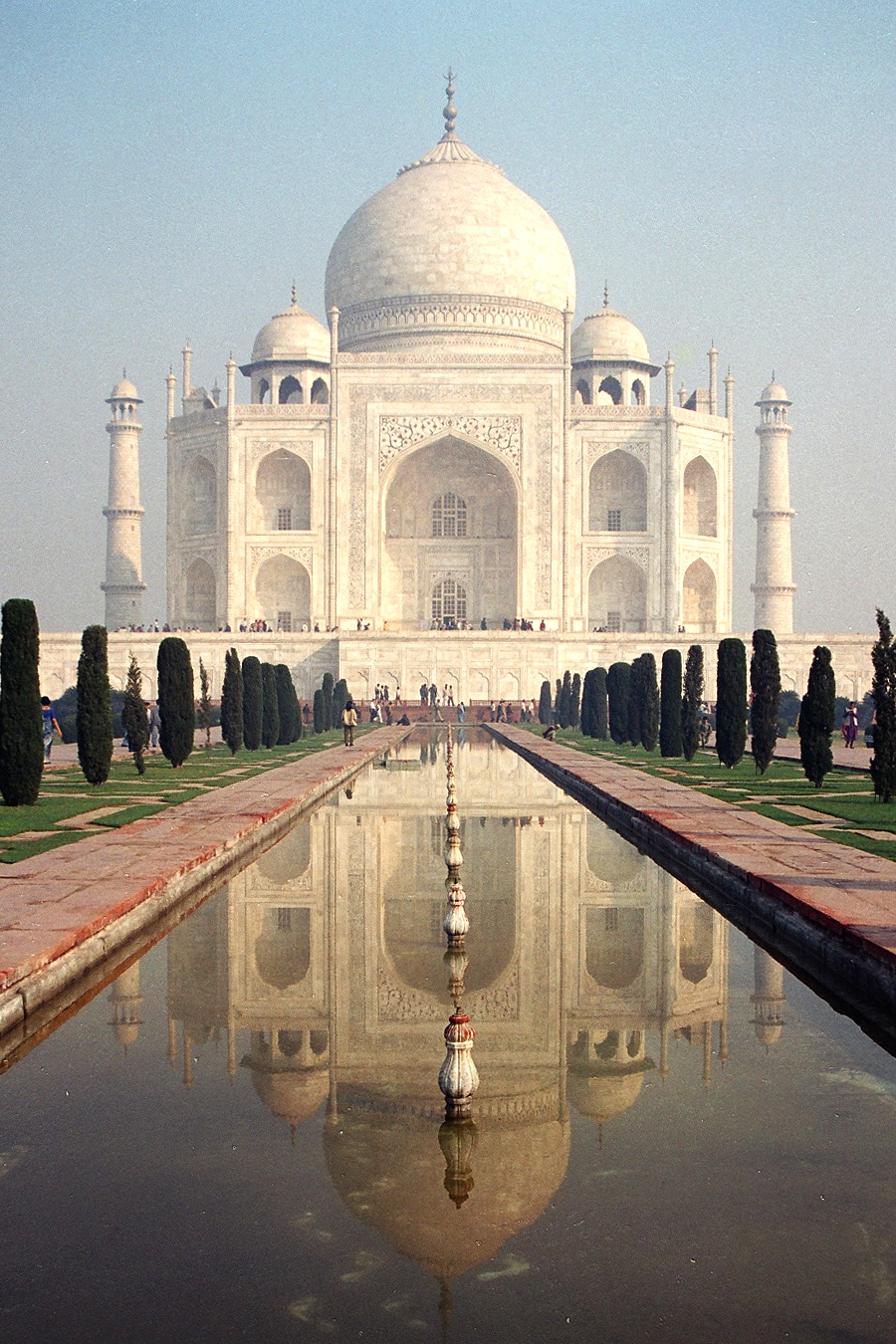 February 2002